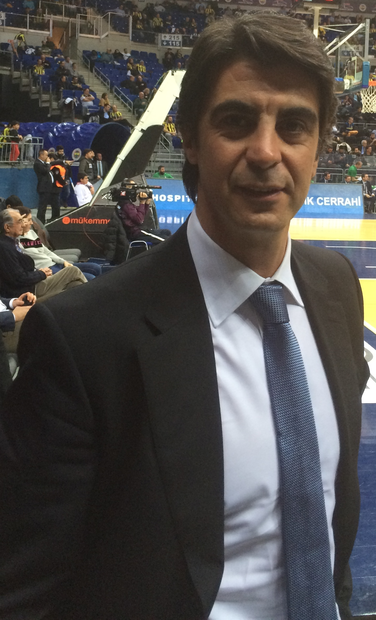 Ibrahim Kutluay 2016 February